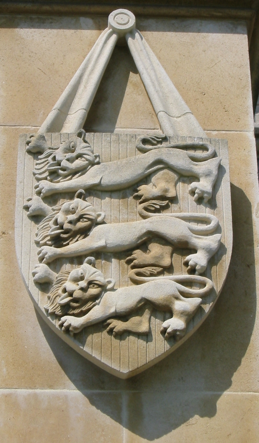 heraldry sculpted on façade of entrance of Victoria College, Jersey